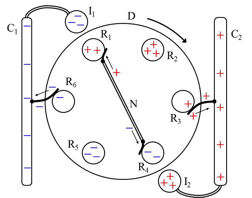 Moore's dirod influence machine schematic diagram